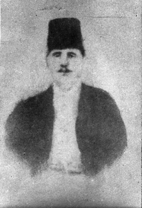 Hariton Liotis